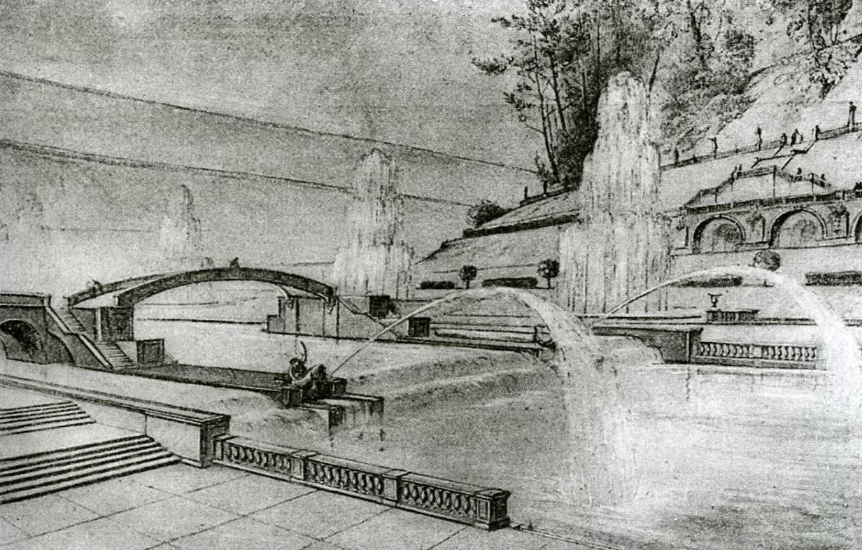 Korzhev M. Vodnyi parter.